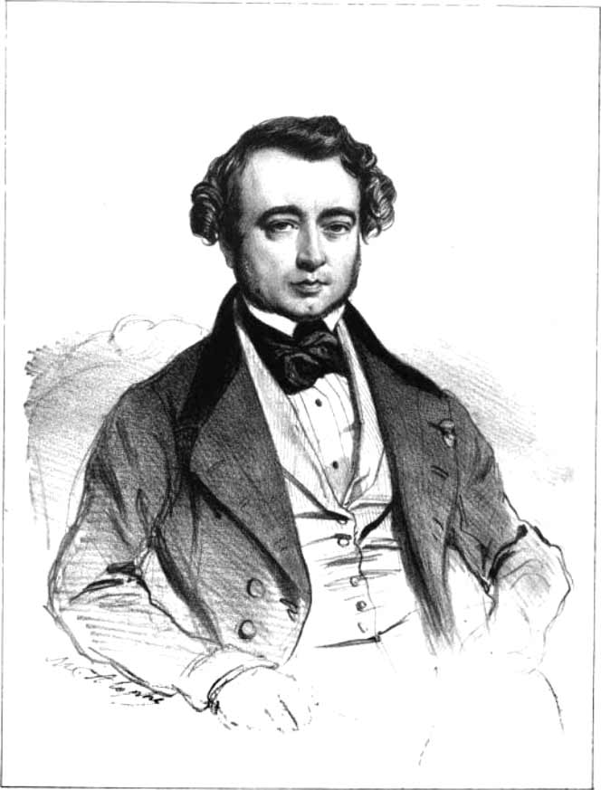 Lithograph of Jacques-François Ancelot (1794-1854), French dramatist and litterateur